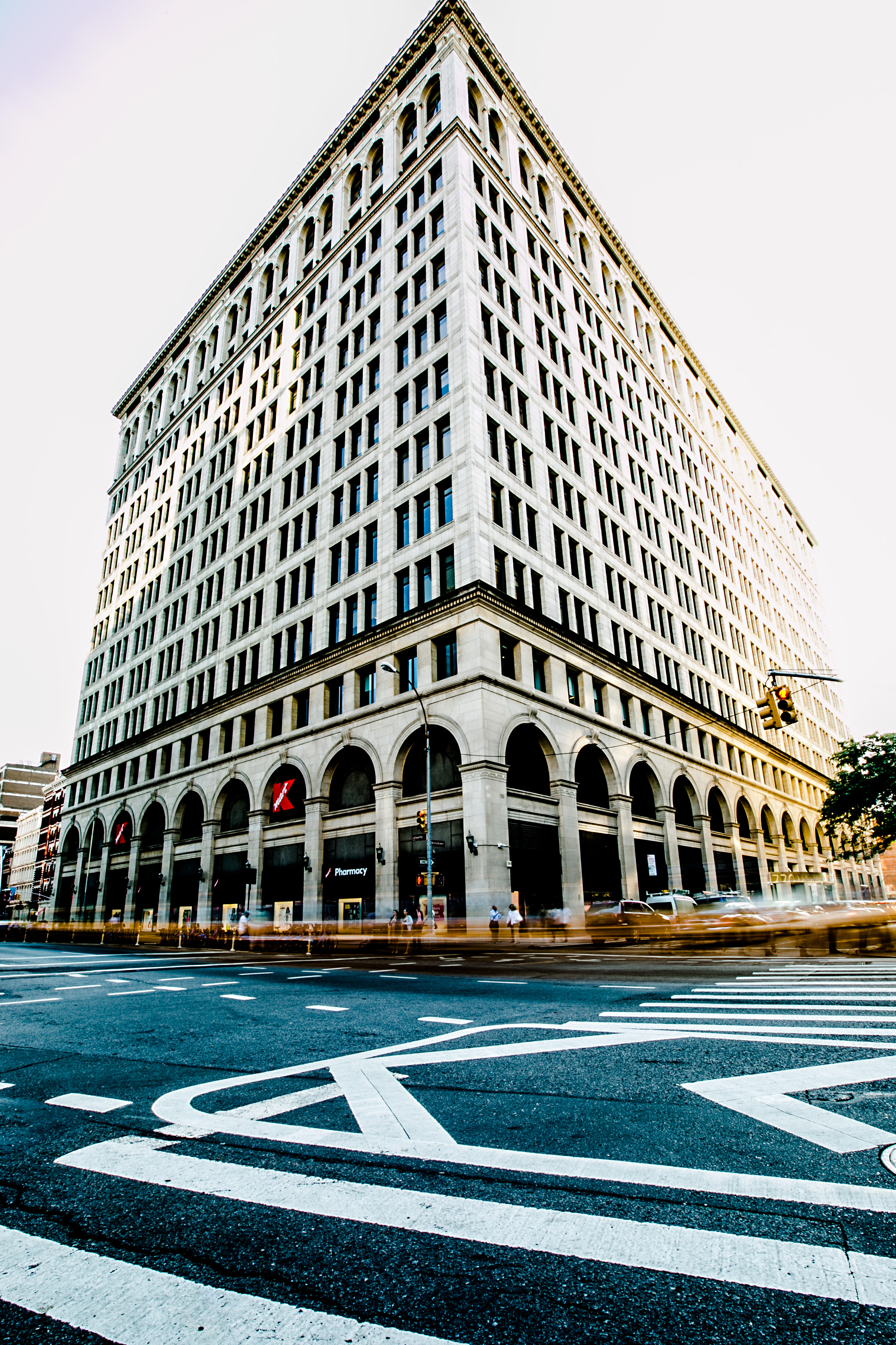 AOL offices at 770 Broadway in Manhattan, New York City